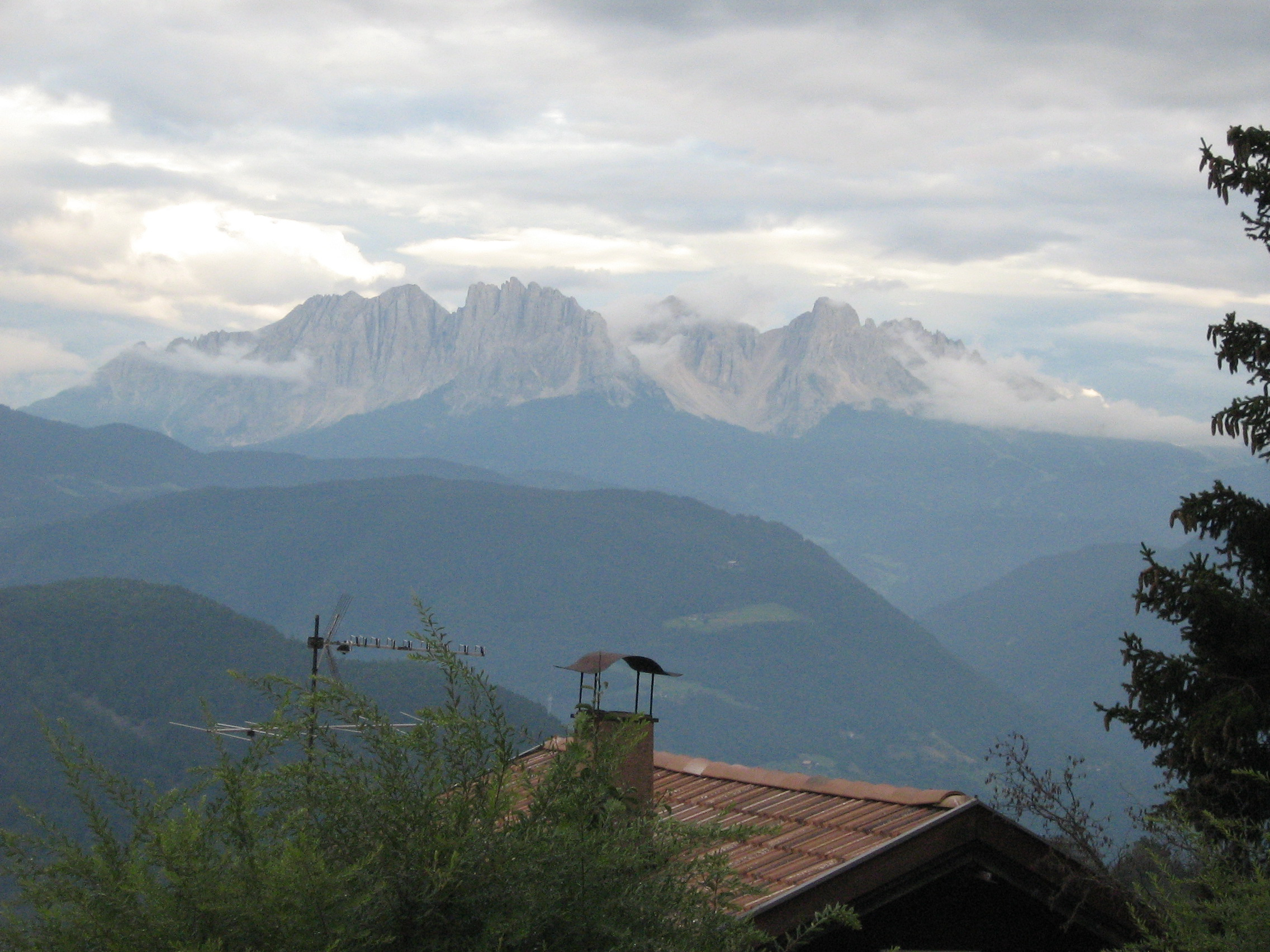 The Dolomites as seen from the Albergo (Gasthof) Tschögglbergerhof in San Genesio Atesino (Jenesien), near Bolzano (Bozen), in the South Tyrol (Alto Adige, Südtirol). I took this photo during my stay there in late July, 2006.